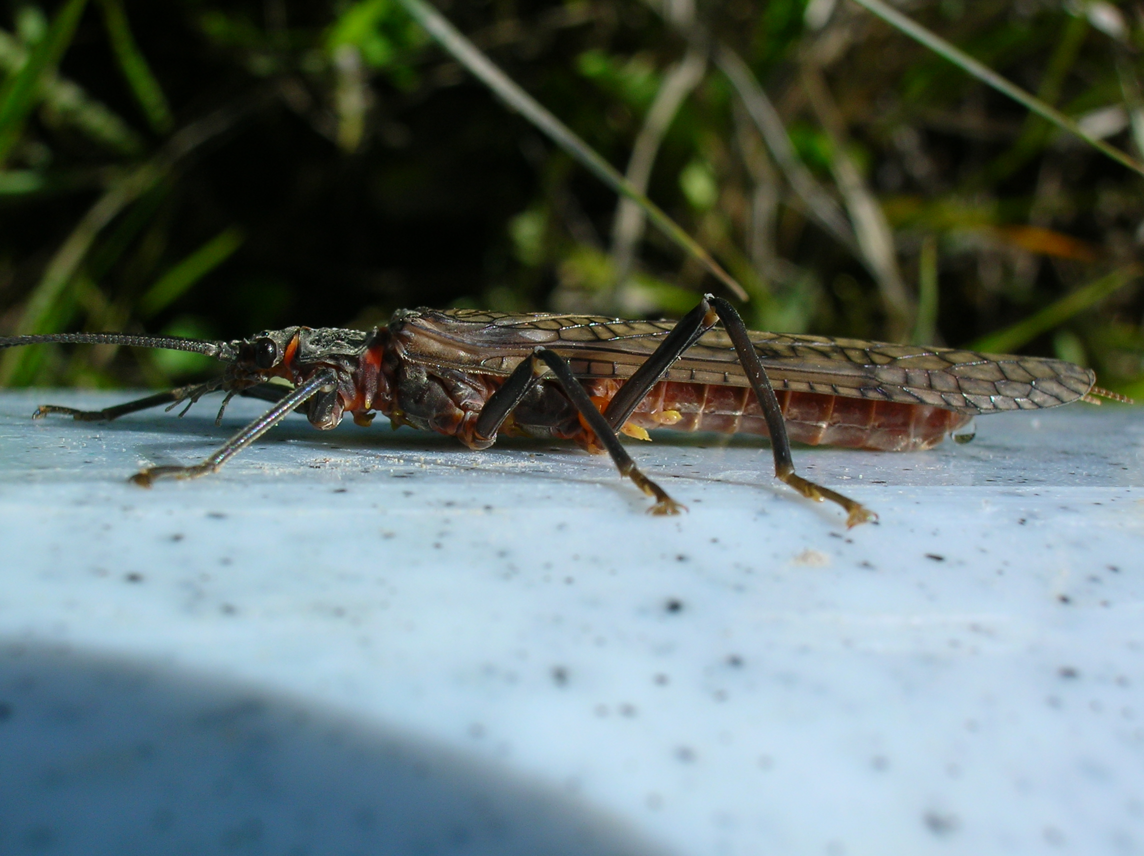 Pteronarcys californica adult; self-made; 3/2/08 Phinfish Multi-liscence GFDL, all CC-BY-SA